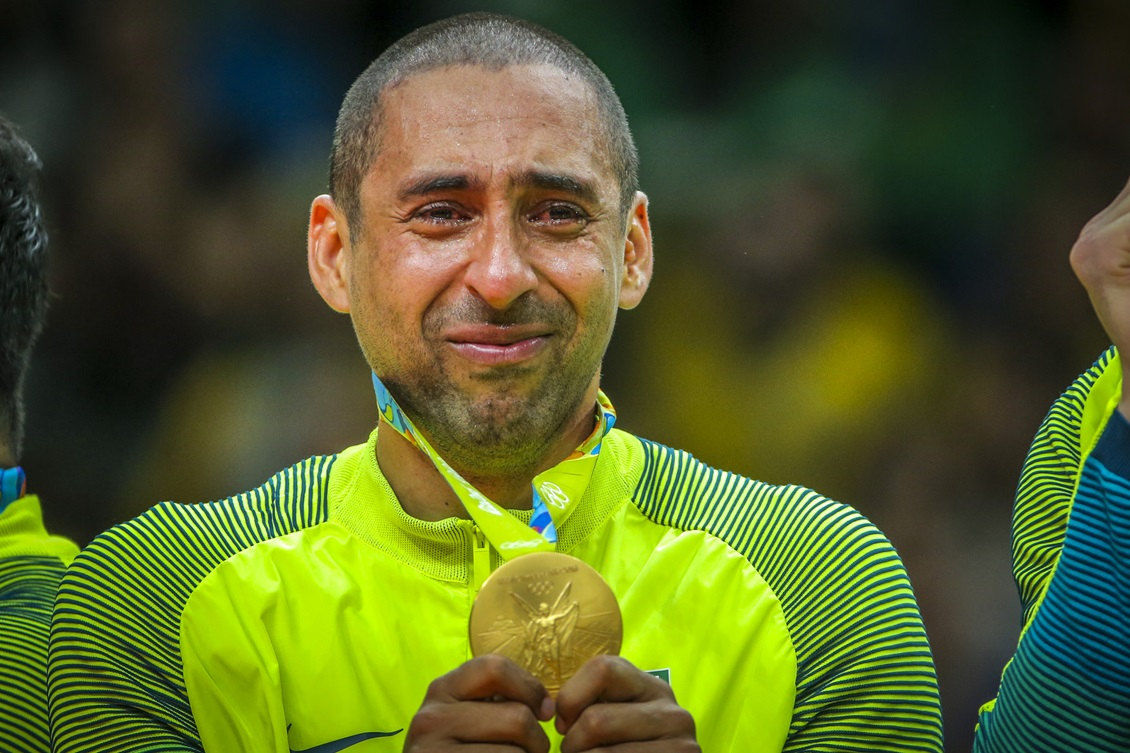 Volleyball at the Summer Olympics in 2016 (men) Final: Brazil - Italy